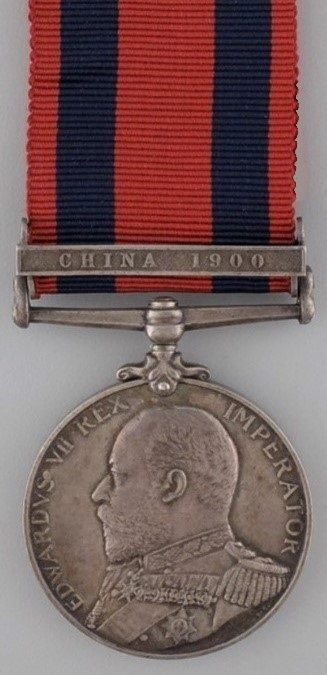 British campaign medal awarded to senior merchant navy officers during the Boer War or China Boxer Rebellion.